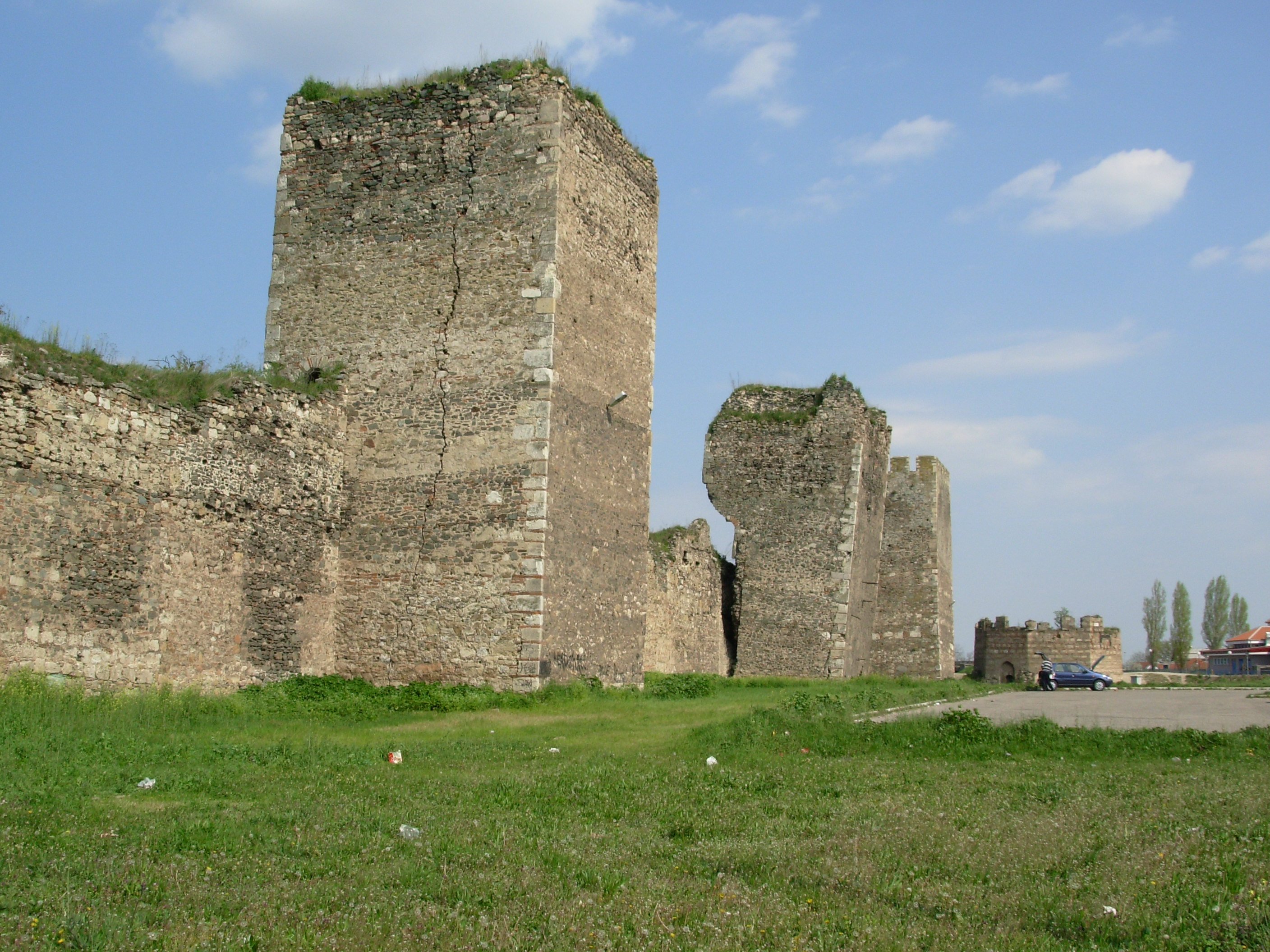 Southeast wall of the big town of Smederevo Fortress. (Photo taken from the outside); corner tower reconstructed, while the one next to it dangerously leans.